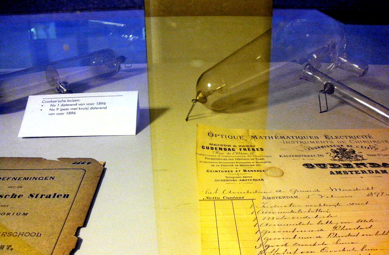 Detail of the 2011 exhibition Van godshuis naar academisch ziekenhuis (about the history of the university hospital in Maastricht) in the corridor leading to the Van Kleeftoren of the University Hospital MUMC+ in Maastricht, Netherlands. This display shows some of the Röntgen X-ray instruments bought by Dr. Lambert van Kleef for the Gasthuis Calvariënberg hospital in Maastricht. On the right the original bill of 1897. On the left the report he wrote in 1896 together with Dr. Heinrich Hoffmans and the photographer Johan van den Eerenbeemt about their experiments.